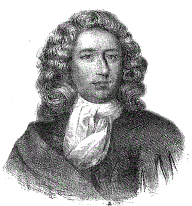 Lieutenant Governor John Wentworth of New Hampshire